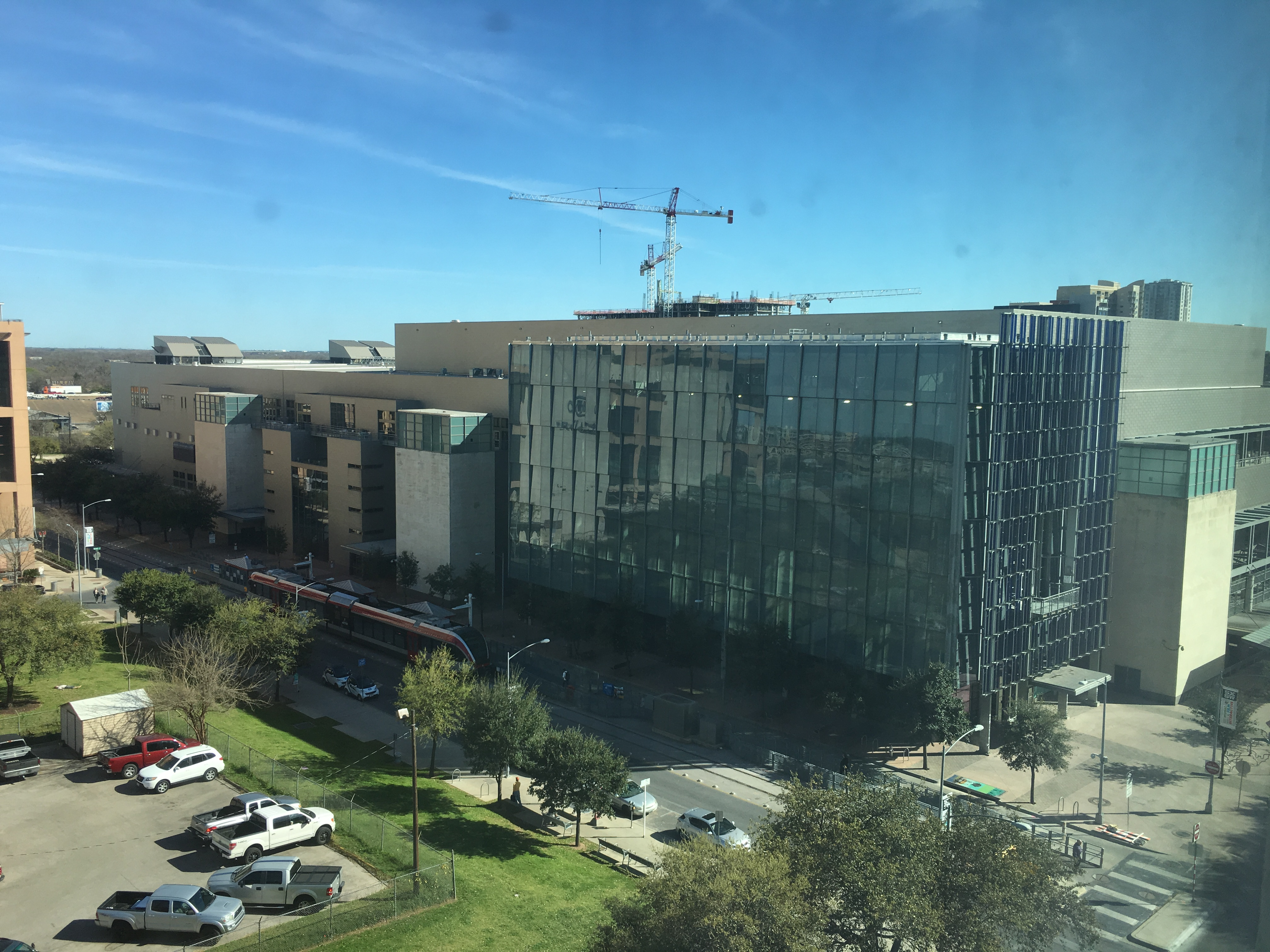 The Austin Convention Center viewed from the eighth floor of the Courtyard in Austin, Texas